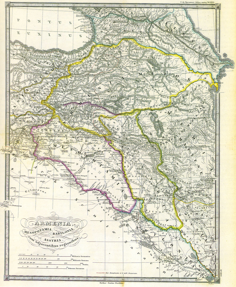 Armenia, Mesopotamia, Babylonia and Assyria with Adjacent Regions", Karl von Spruner, published in 1865